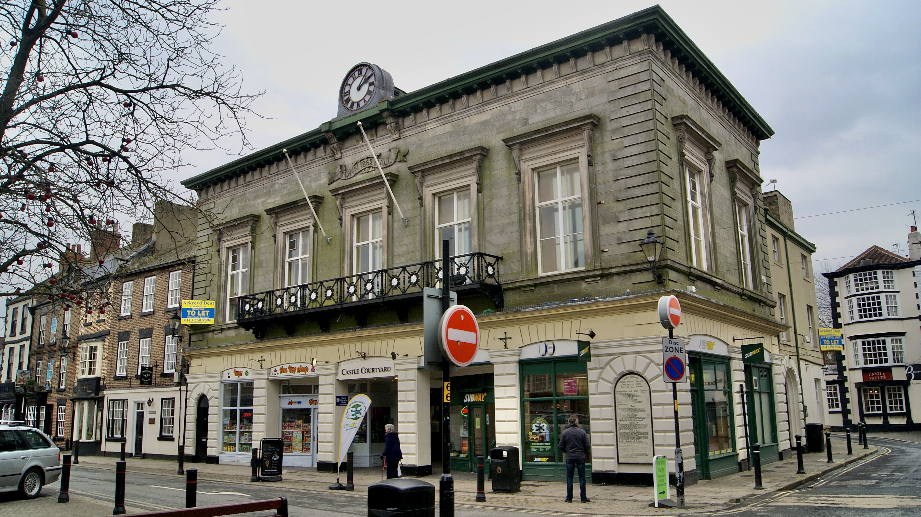 Knaresborough Town Hall (former), Market Place, Knaresborough, North Yorkshire. This building is no longer used for civic functions but now makes up the Castle Courtyard Shopping Centre. Taken on the afternoon of Tuesday the 19th of March 2013